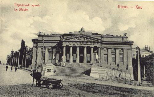 National Art Museum of Ukraine in Kiev